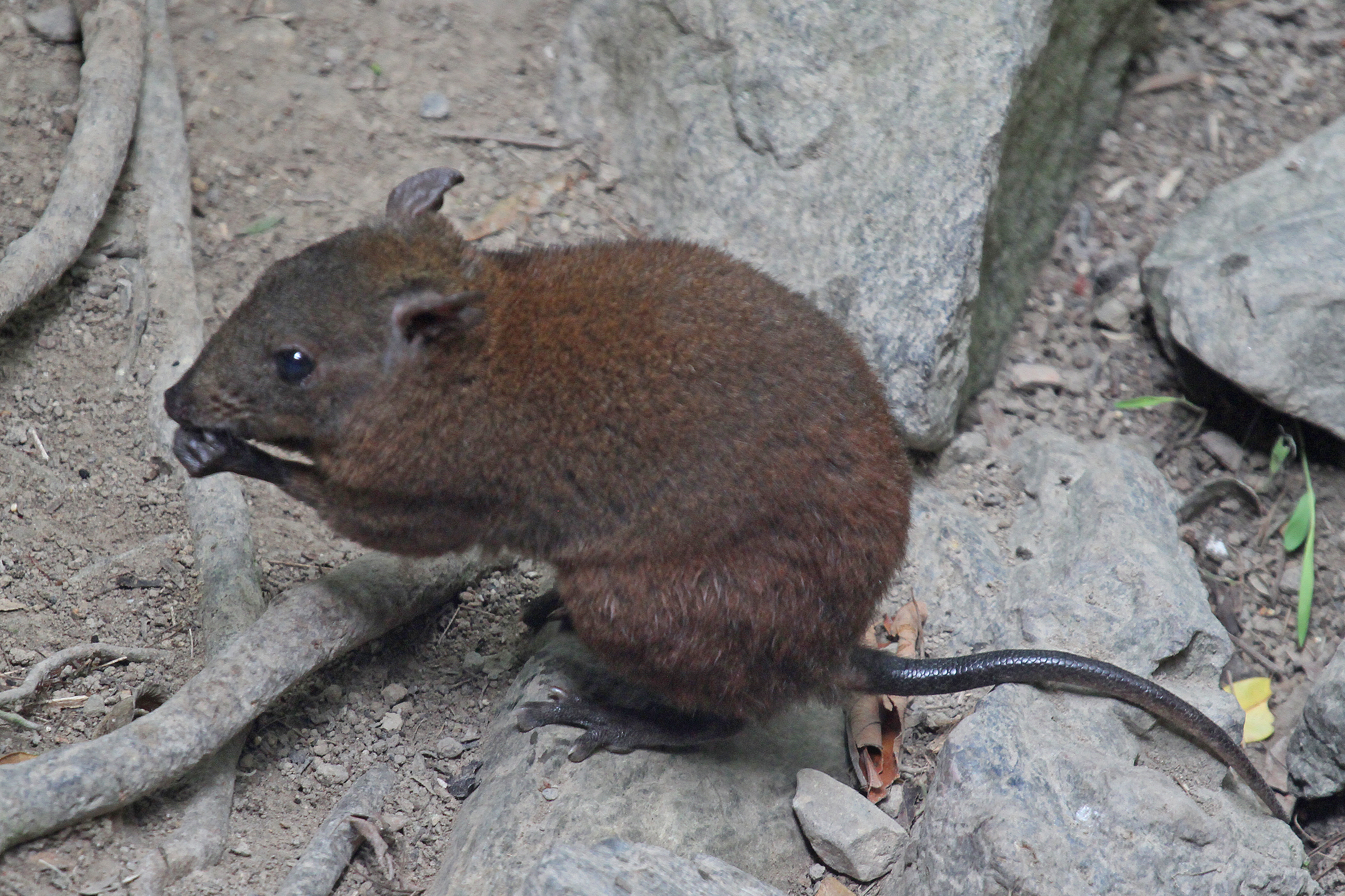 photo of Musky Rat Kangaroo